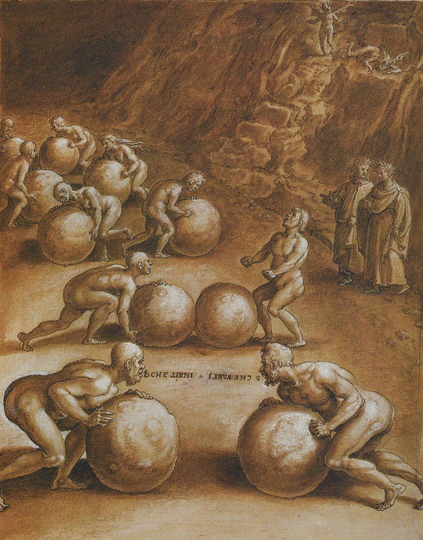 Illustration of Dante's Inferno, Canto 7